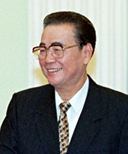 A cropped version of File:Vladimir Putin with Li Peng-2.jpg of Li Peng